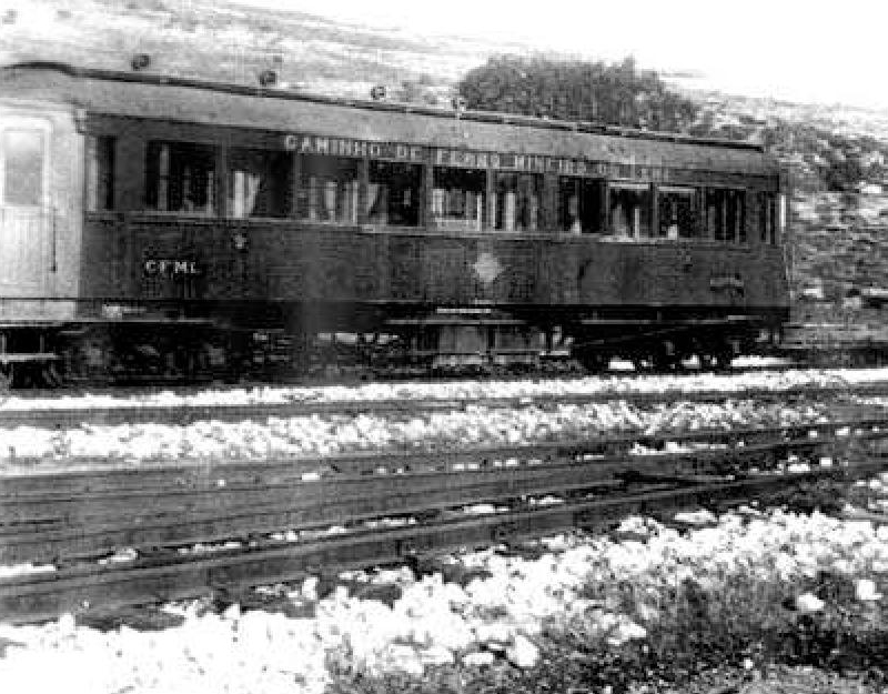 Coach of the Caminho de Ferro Mineiro do Lena (Lena Mining Railway), a network in Western Portugal that functioned until the end of the World War II. This coaches entered service in the 1920s. This image was originally published on the Gazeta dos Caminhos de Ferro magazine.